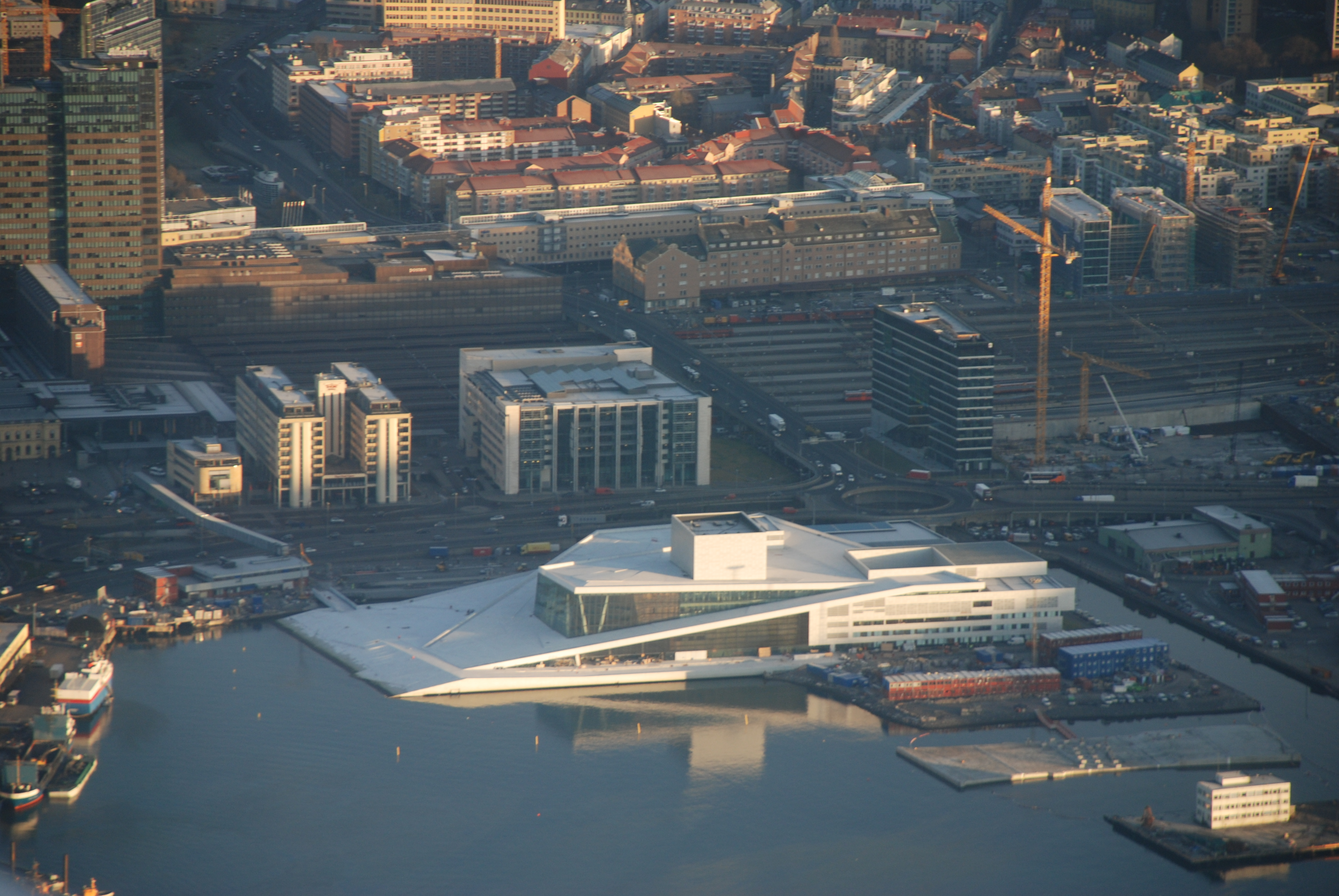 The Oslo Opera House